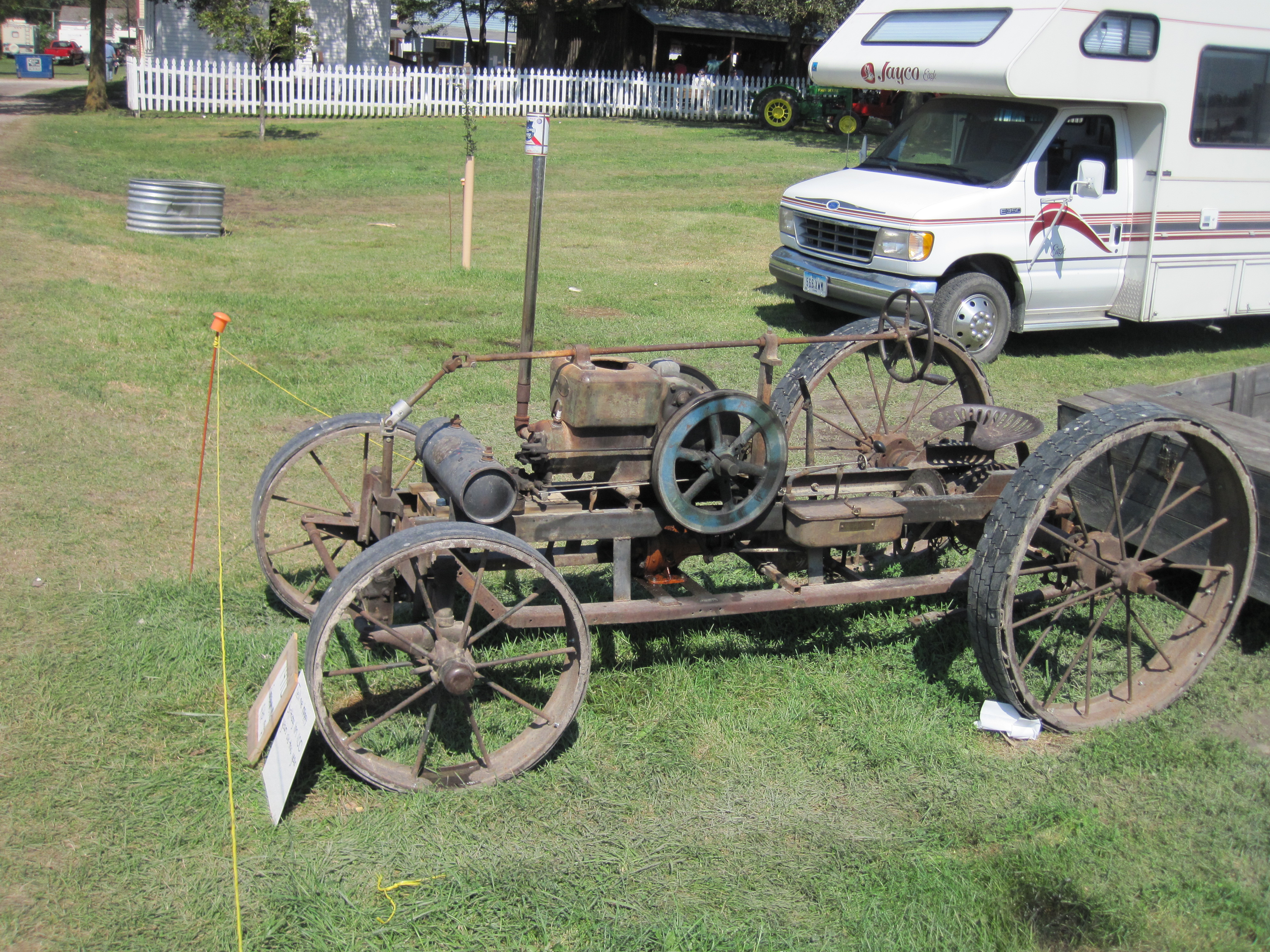 Fairbanks-Morse 1910 Model H